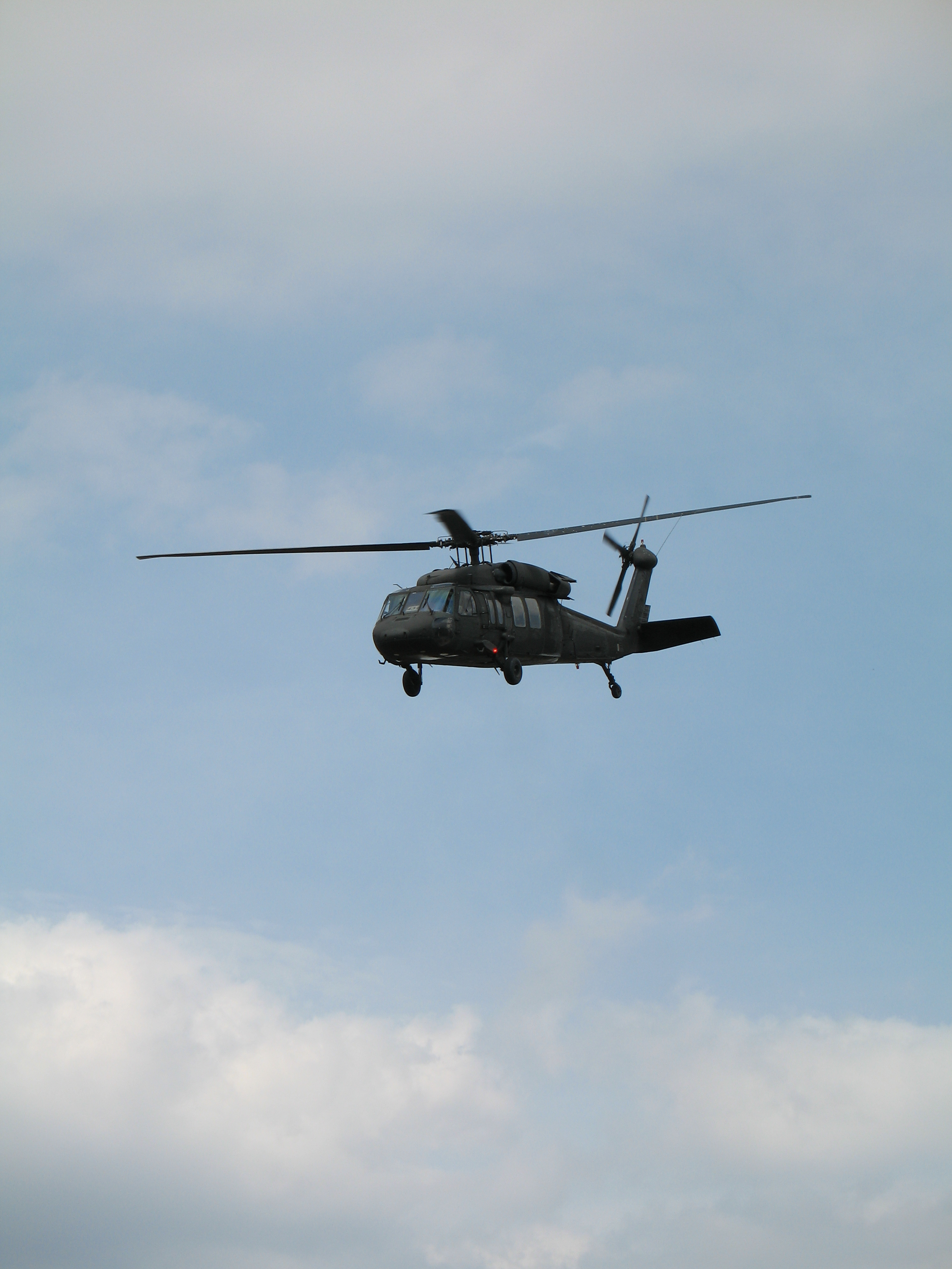 A UH-60 Black Hawk helicopter lands on Virginia Tech's Drillfield.